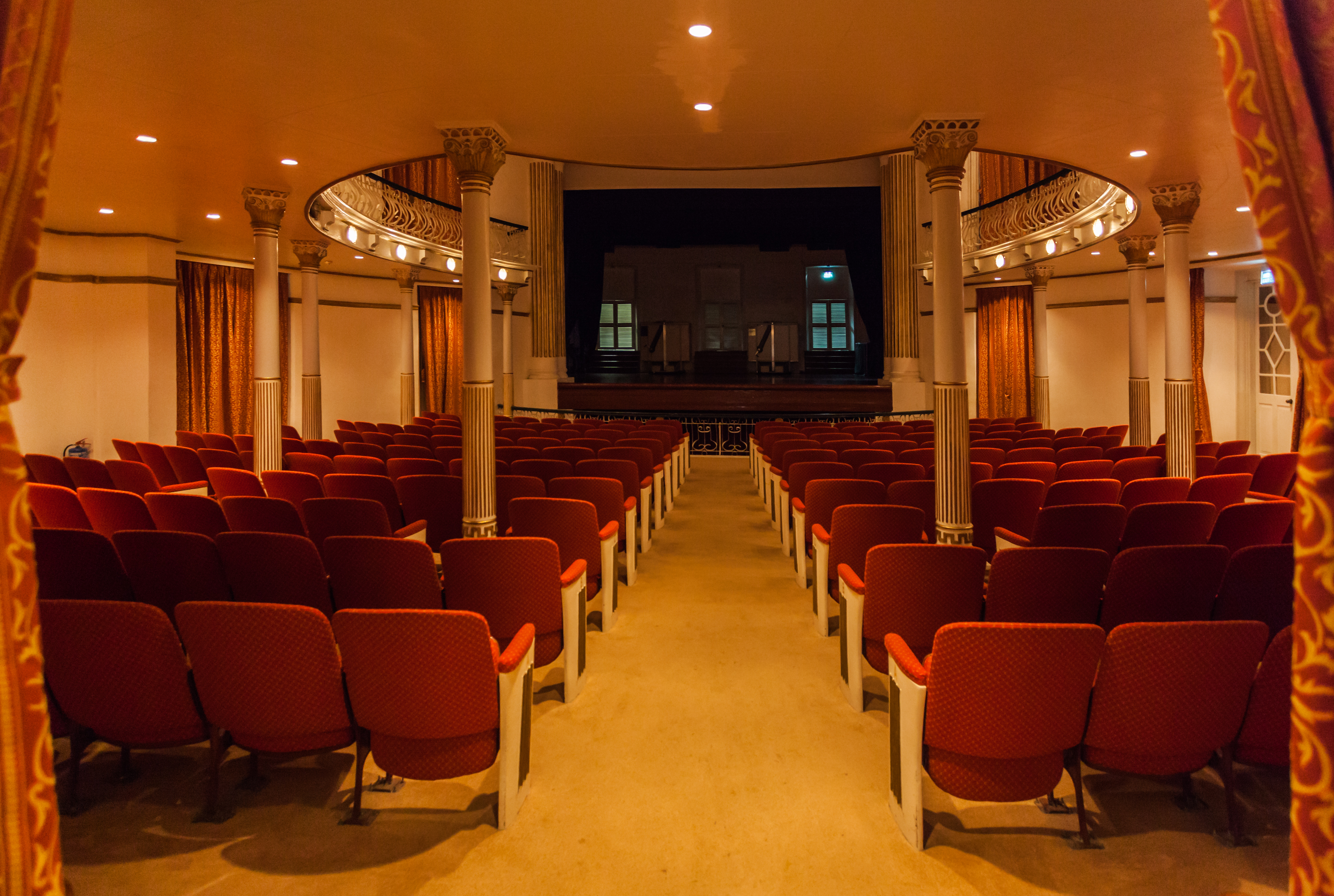 Dom Pedro V Theater, Macau